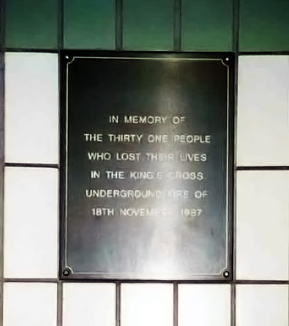 Memorial plaque to the 1987 fire in the King's Cross St. Pancras Underground station